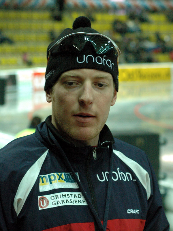 Øystein Grødum at the 2005 World Championships in Moscow.